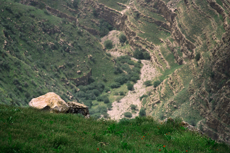 Köpetdag mountains, Ashgabat, Turkmenistan. May 2009.